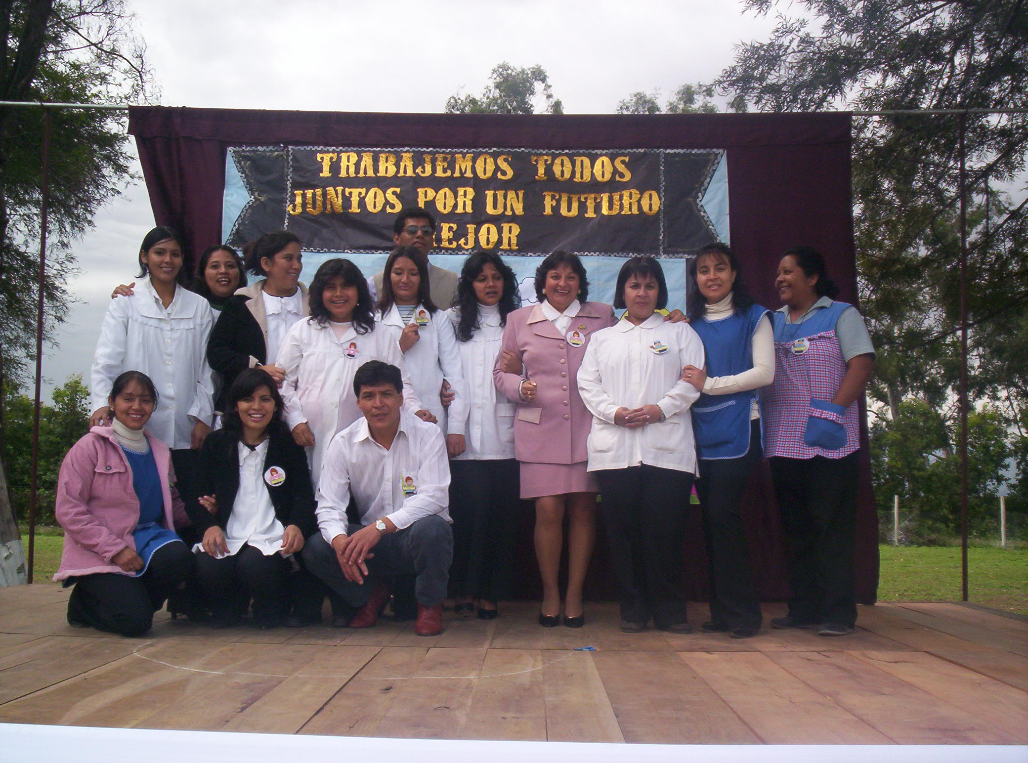 Plantel Docente de la Escuela 644 - Año 2008